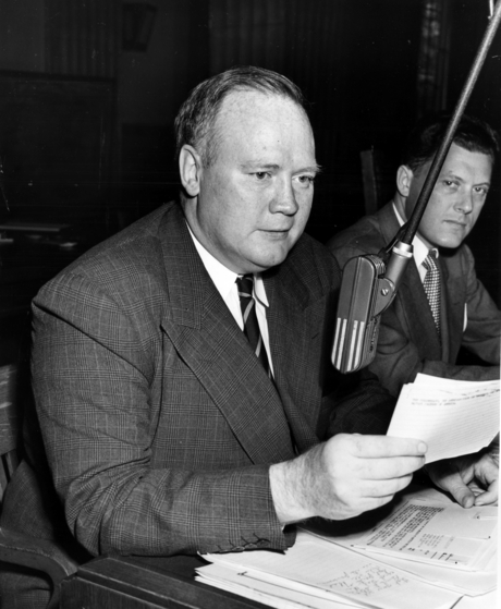 Attorney Hugh Fulton, pictured at a conference or hearing, with papers that are dated April 2, 1947. Hugh Fulton served on the Truman Committee as chief counsel from March 1941 to August 1944. Image was donated by Hugh Fulton to the Harry S. Truman Library and Museum administered by the US National Archives.